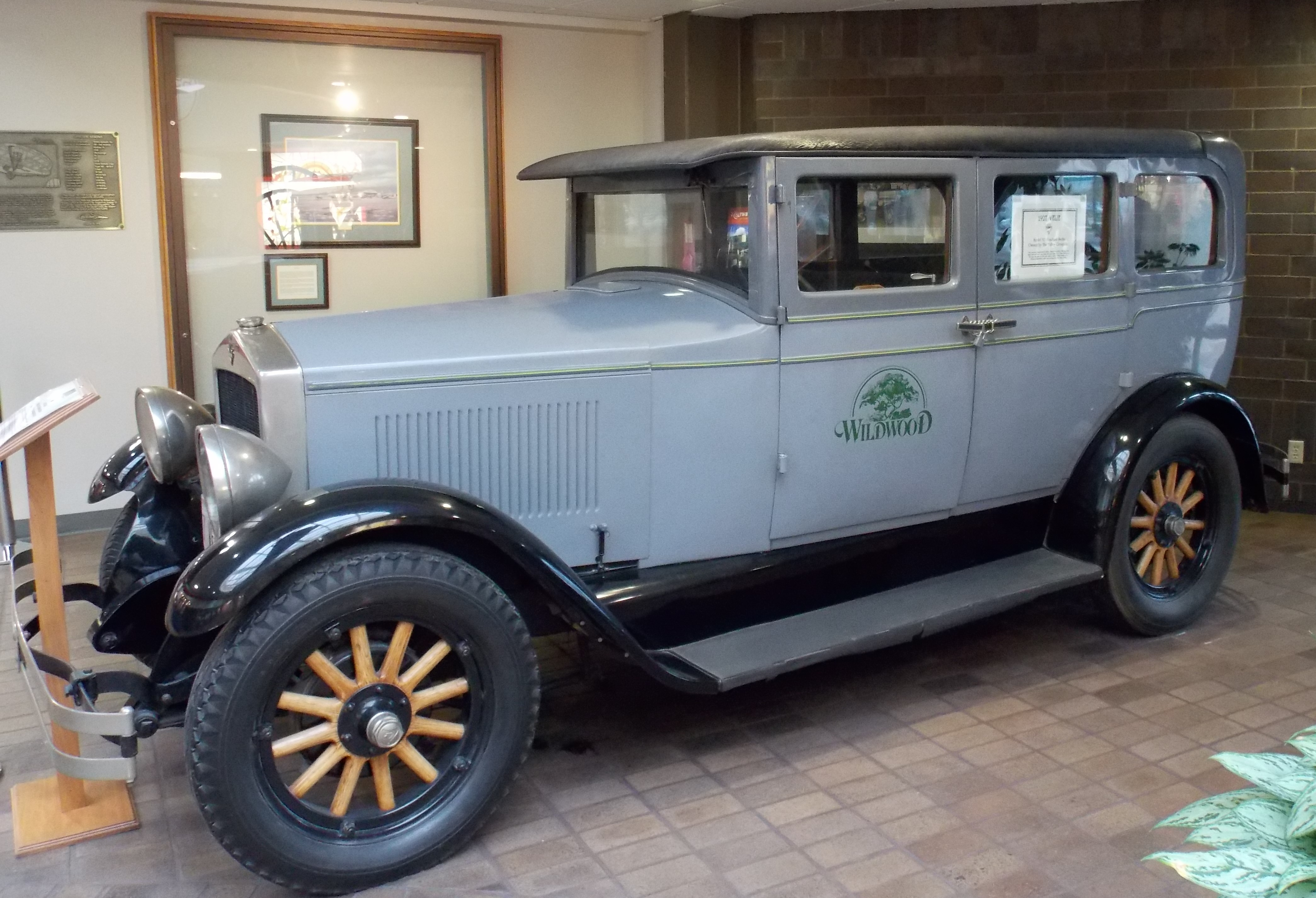 A 1927 Velie Model 50 Standard Sedan on display at Quad City International Airport in Moline, Illinois